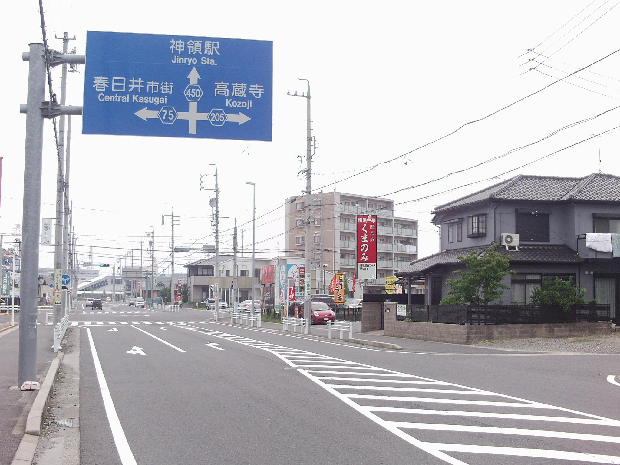 Aichi prefectural road No.450 in Jinryocho, Kasugai, Aichi. Jinryo crossroad.